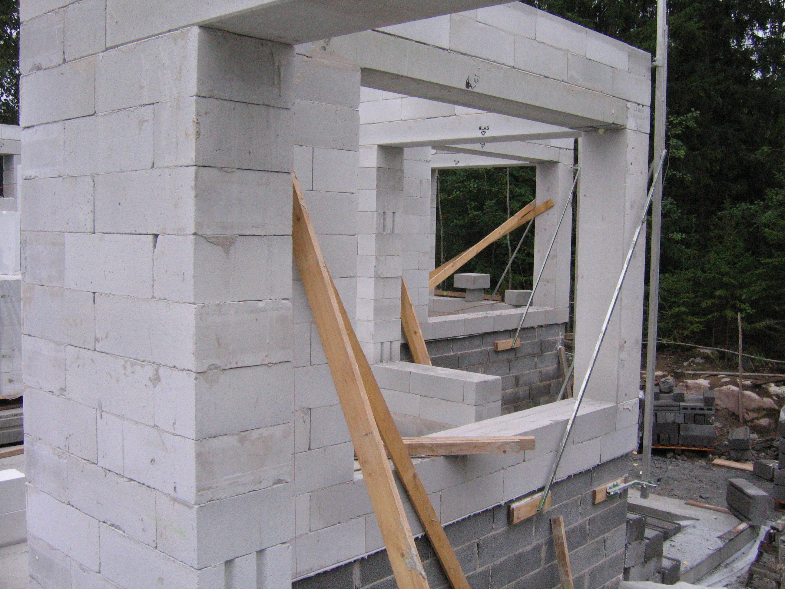 Siporex -house under building in Kuopio, Finland